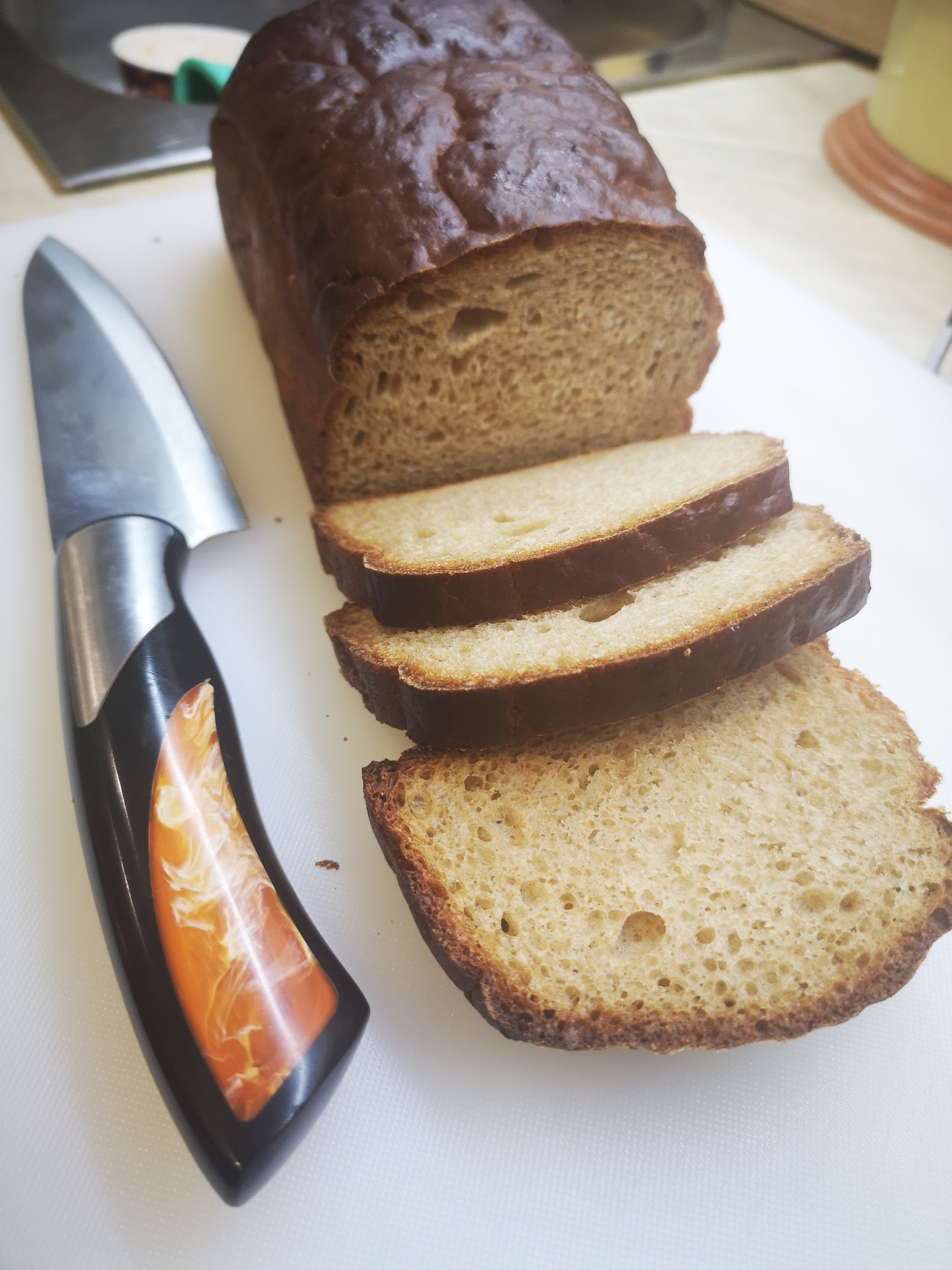 Darnytsky Bread - Traditional Russian rye-wheat bread, with a typical gray-brown or gray-cream color, adopting a bright, aroma and taste with characteristic acidity.